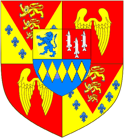 Arms of Charles Seymour, 6th Duke of Somerset (1662-1748): Seymour Duke of Somerset with inescutcheon of pretence of Percy. Arrangement as shown sculpted on overmantel of the Marble Hall, Petworth House (Source: per photograph in Nicholson, Nigel, Great Houses of Britain, London, 1978, p.166); image from see[1]